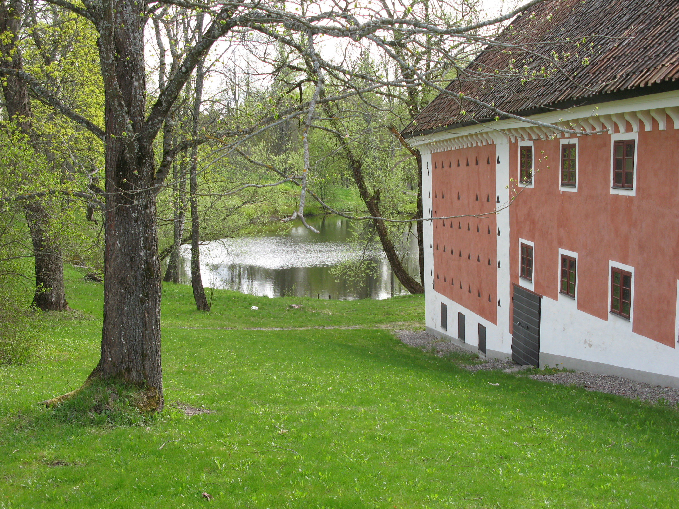 Karlslunds manor